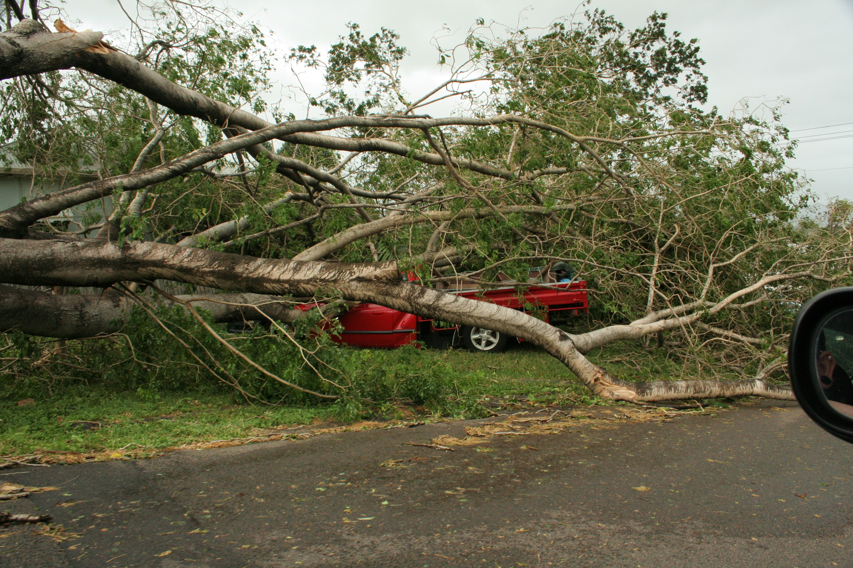 Ford Falcon ute crushed by a downed tree in Townsville.